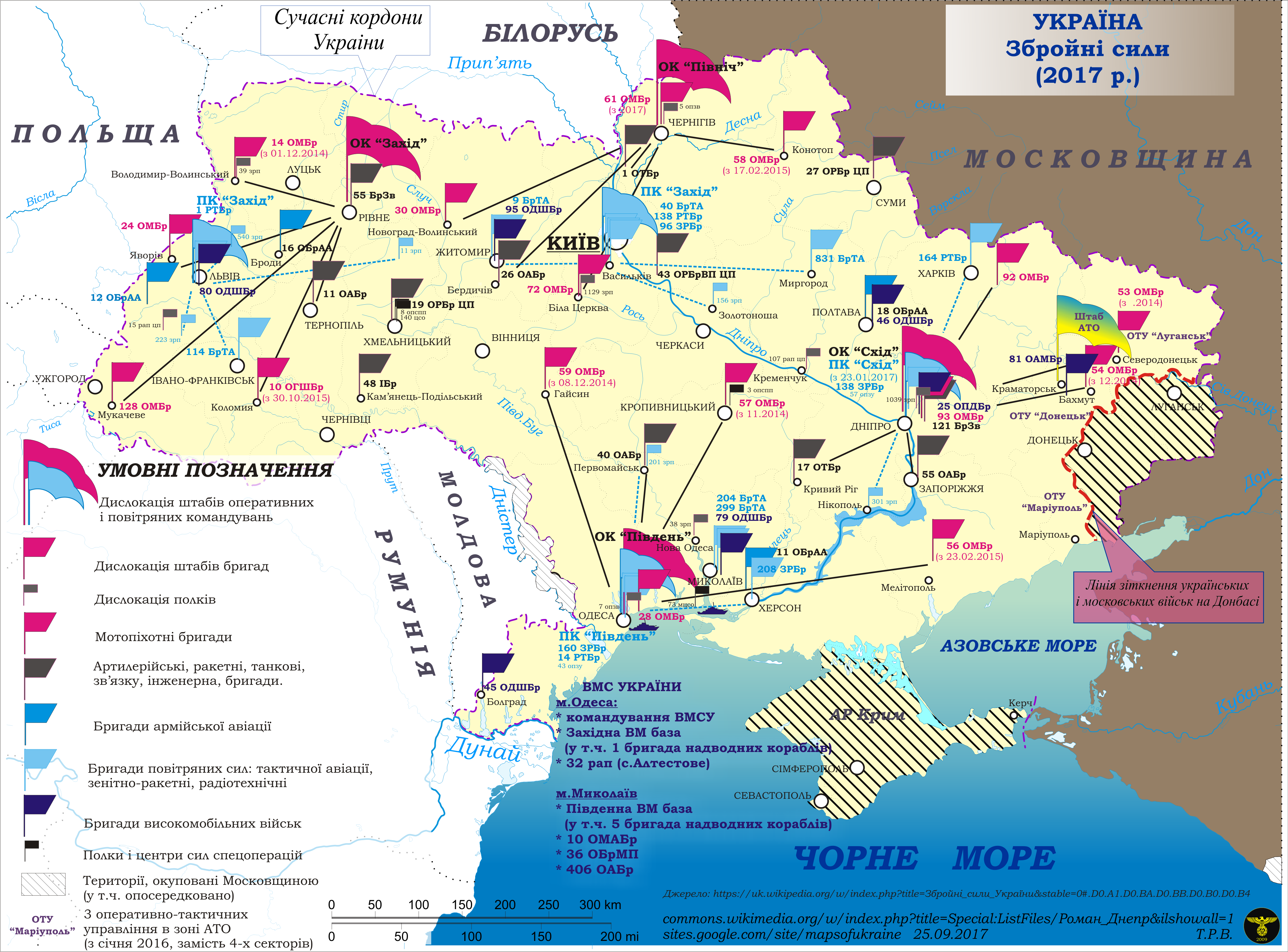 Location of the Armed Forces of Ukraine in 2017